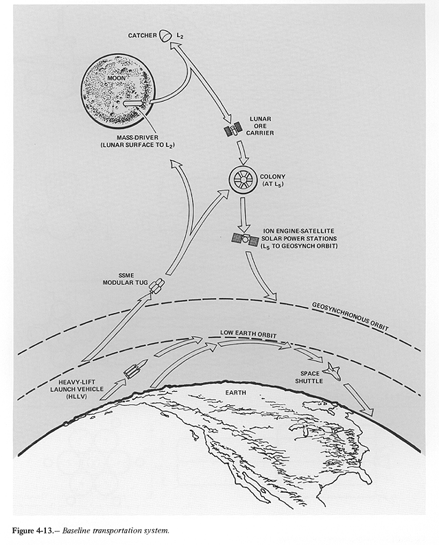 Baseline transportation system